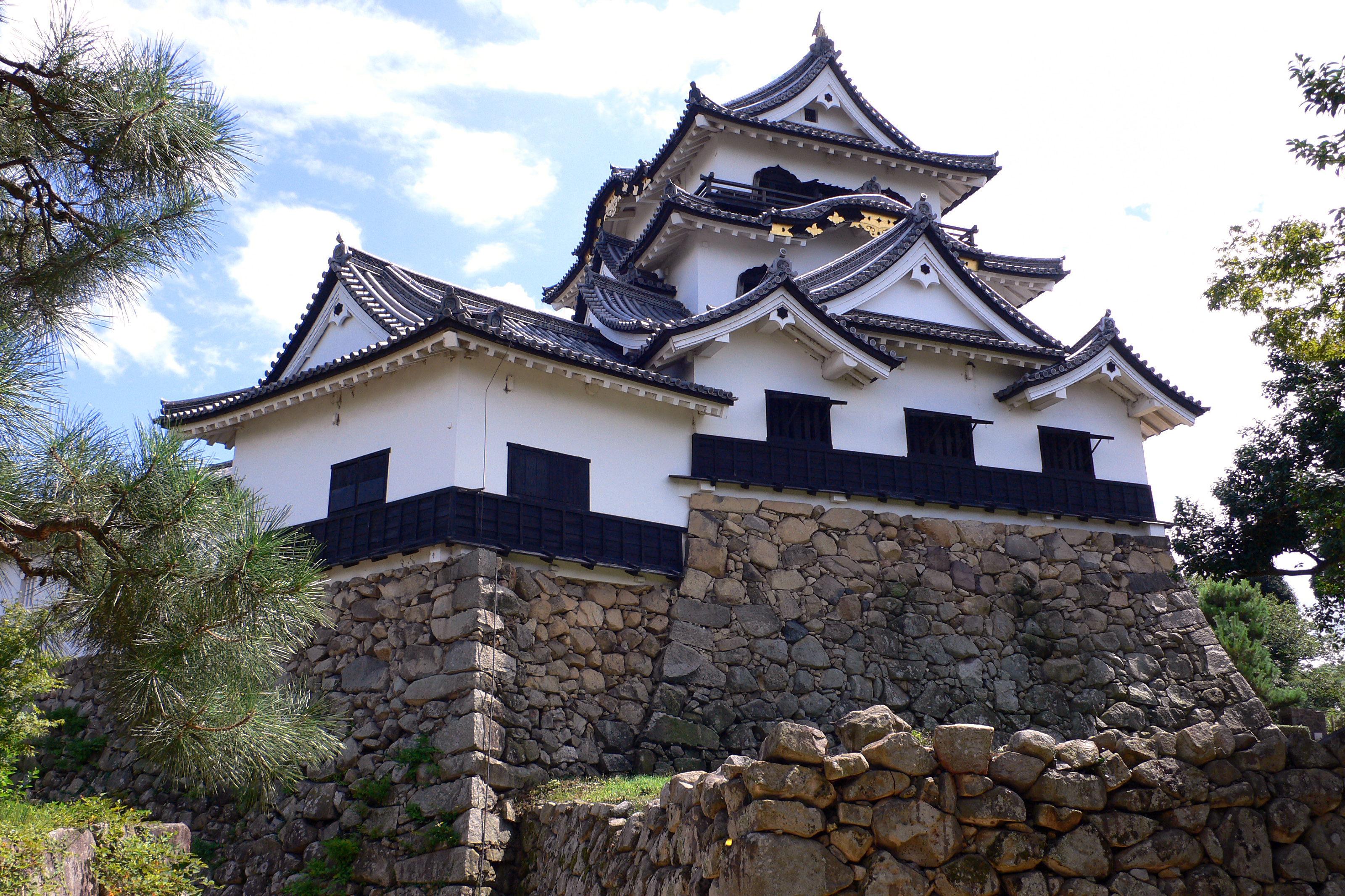 Hikone Castle Keep Tower in Hikone, Shiga prefecture, Japan